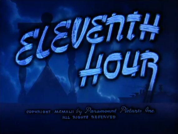 Title screen of the animated short "Eleventh Hour".